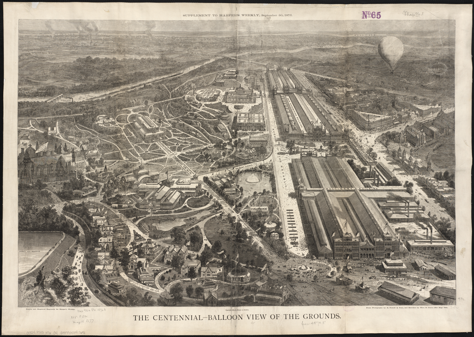 Zoom into this map at . Publisher: Harper & Bros. Date: c1876. Location: Philadelphia (Pa.) Scale: Not drawn to scale. Call Number: G3824.P5A3 1876.C4